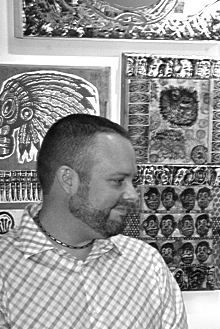 Greg Bennett at G Gallery. Photo by Alex Barber